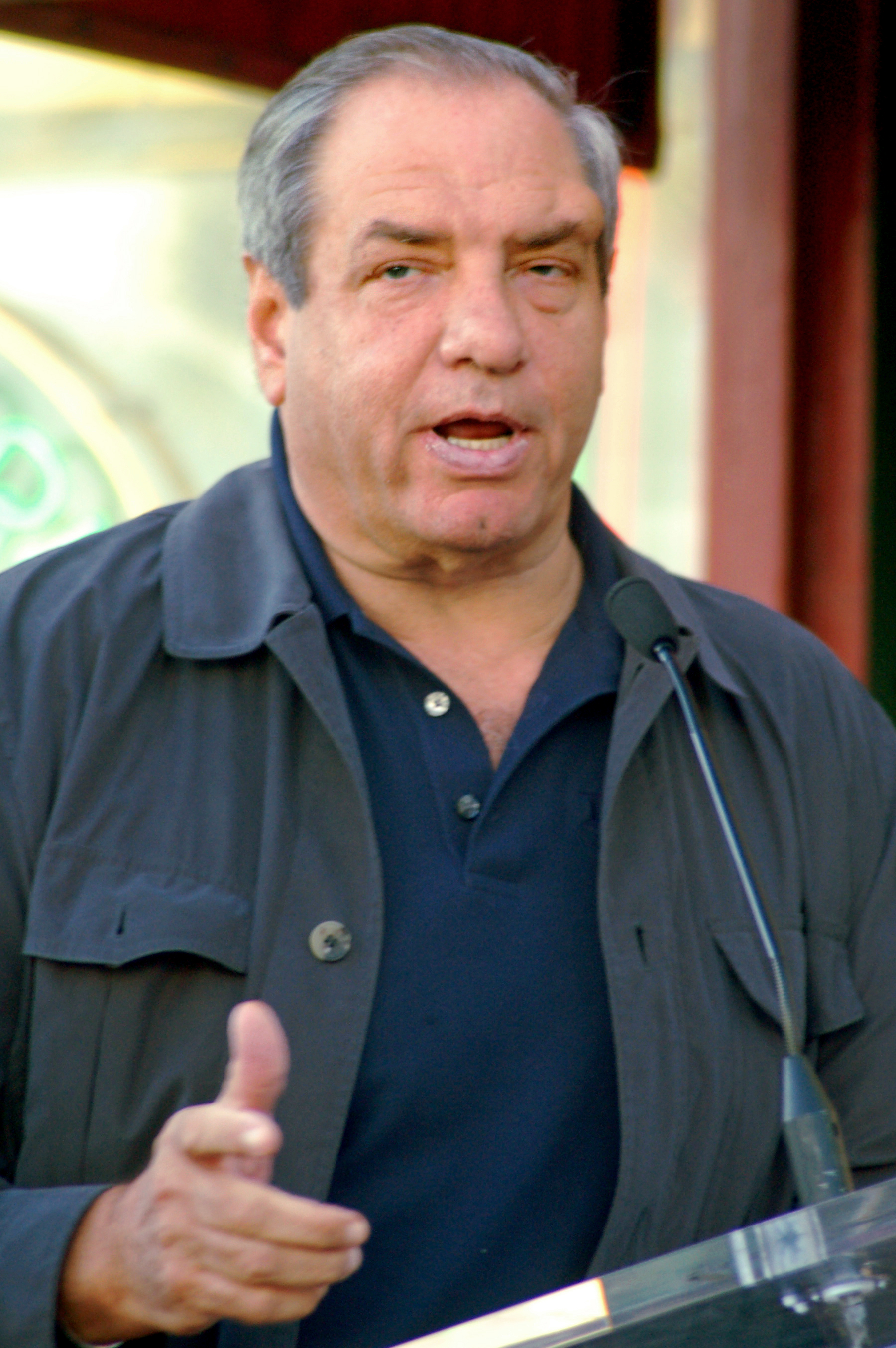 Dick Wolf speaking at a ceremony in January 2010 for Sam Waterston to receive a star on the Hollywood Walk of Fame.